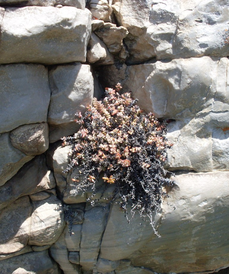 Crassula rupestris. The concertina plant. Table Mountain. Cape Town.